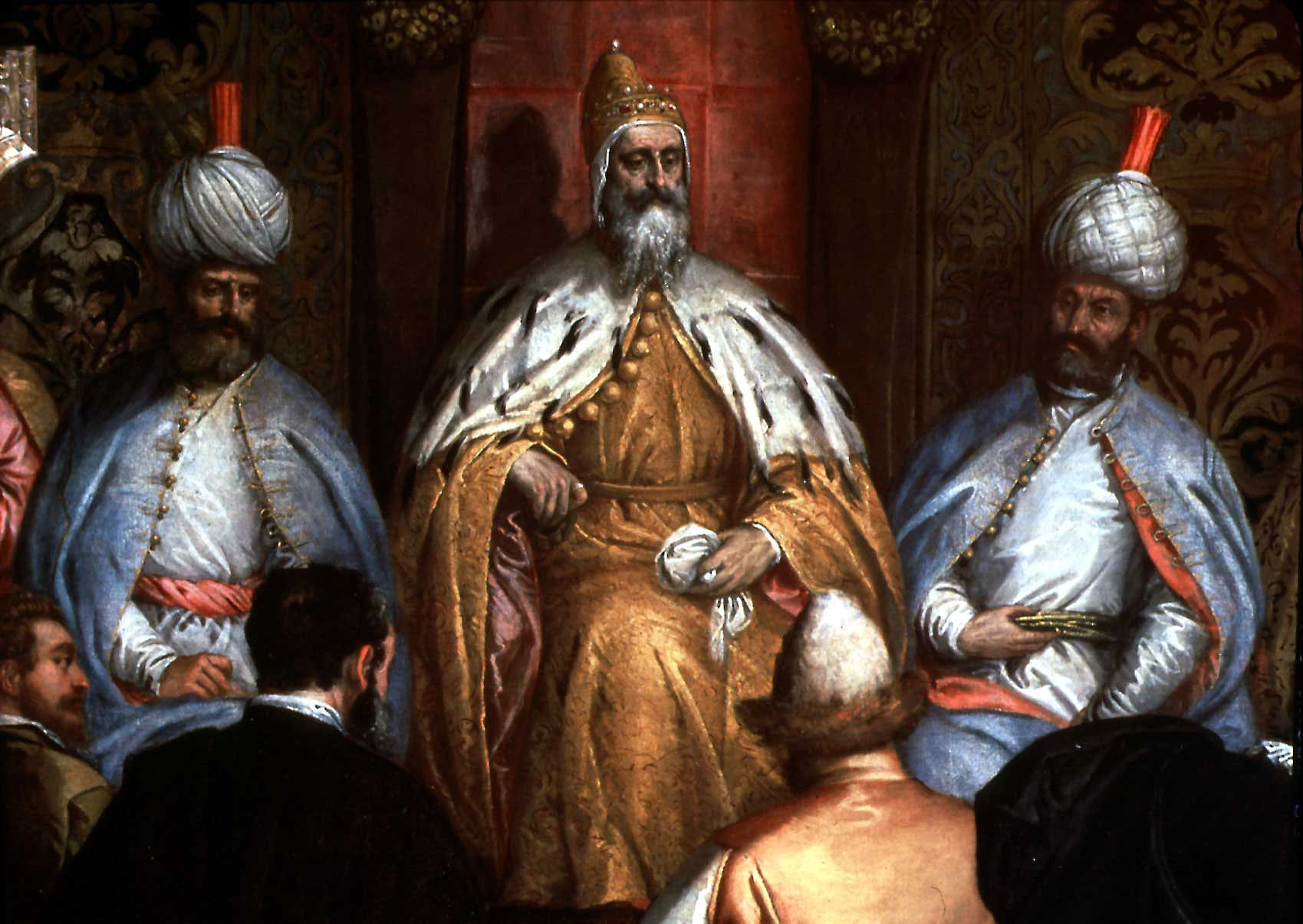 Marino Grimani (1532-1605) receiving the Persian ambassador